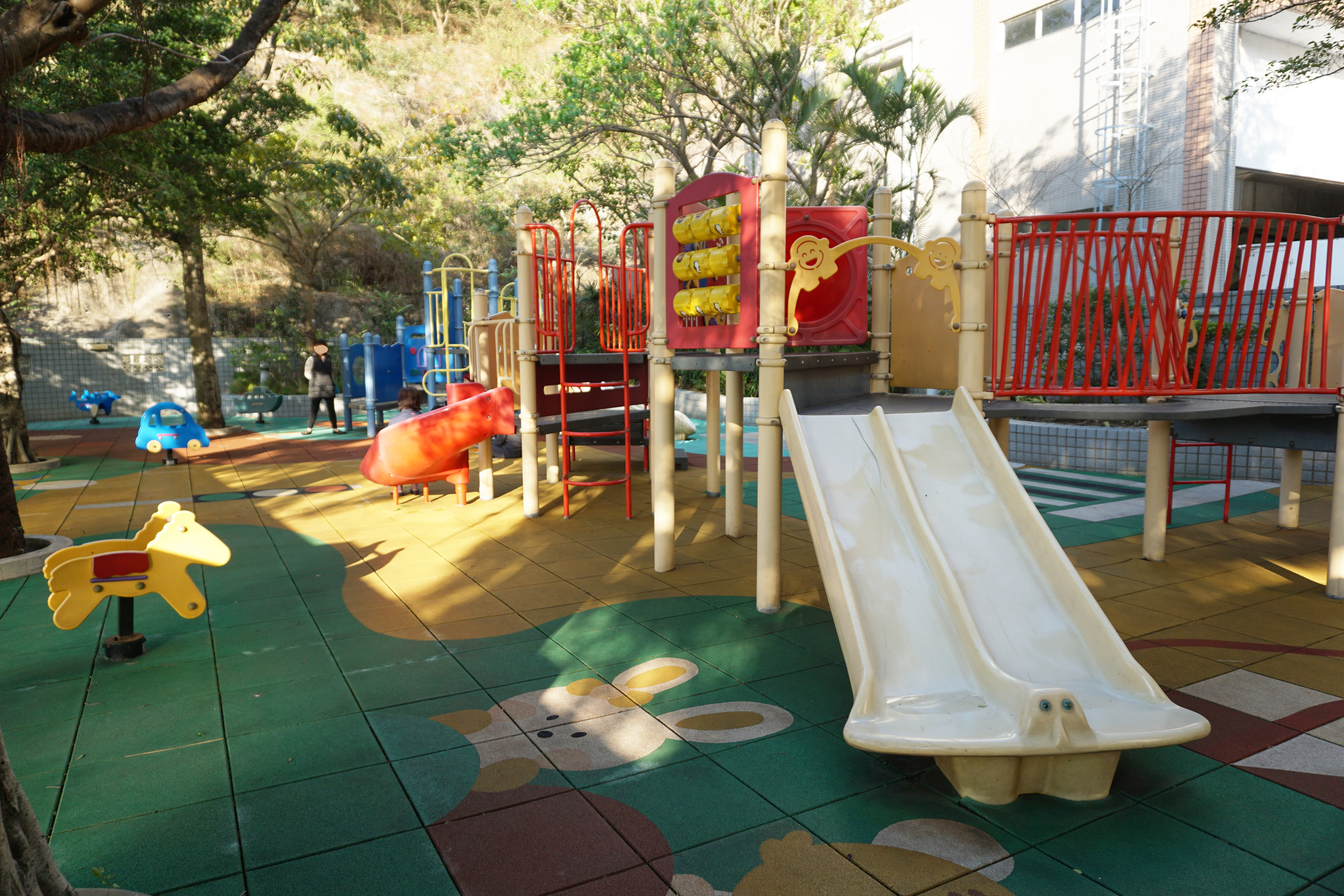 Ning Fung Court in Shek Yam, Hong Kong.